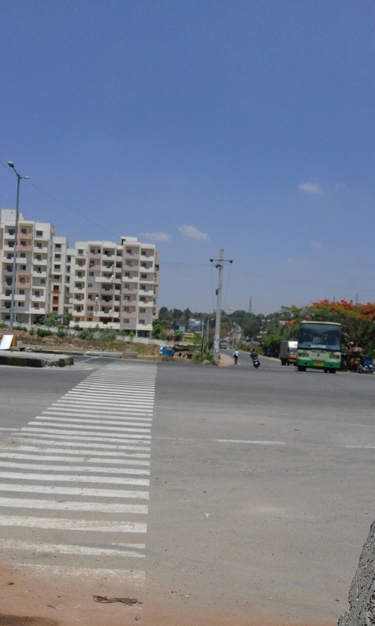 Mysore city, Karnataka province, India.